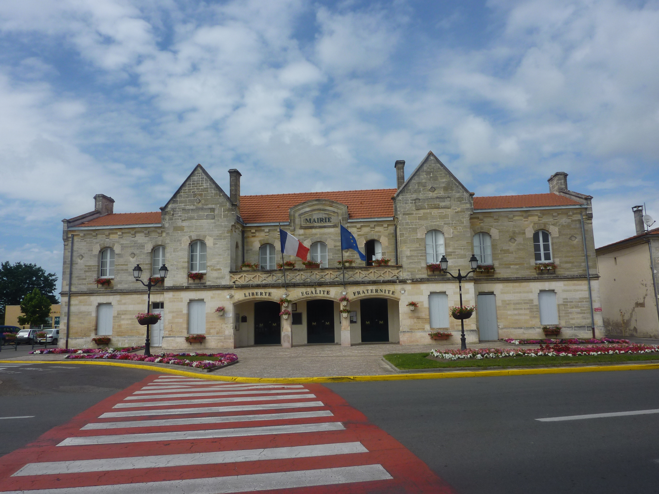 City hall of Vendays-Montalivet, Gironde, France